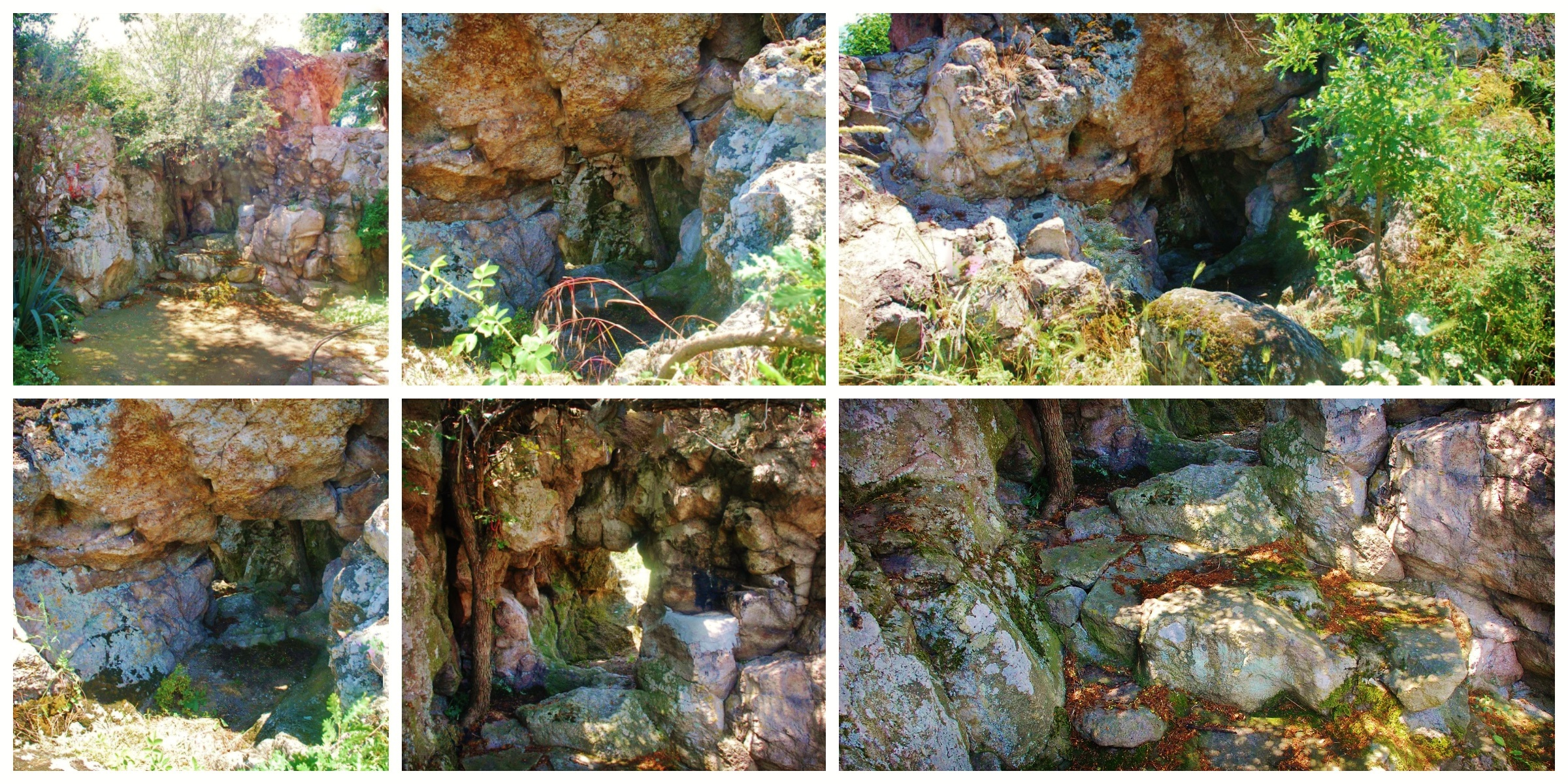 The Arc at St. Virgin Mary Holly Spring Minaralni Bani Haskovo Bulgaria